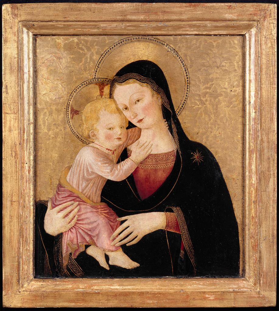 A painting of the Virgin and Child by Caporali.